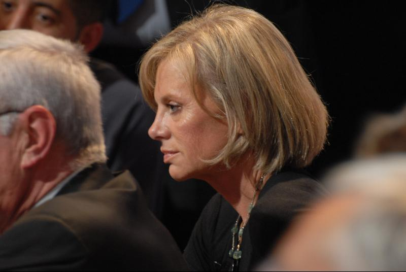 Ségolène Royal and José Luis Rodríguez Zapatero's rally in Toulouse for the French presidential election, 2007. This photo is available in a higher resolution at Wikimedia Commons, the free media repository, in the category Royal and Zapatero's meeting in Toulouse for the 2007 French presidential election, 19 April 2007.